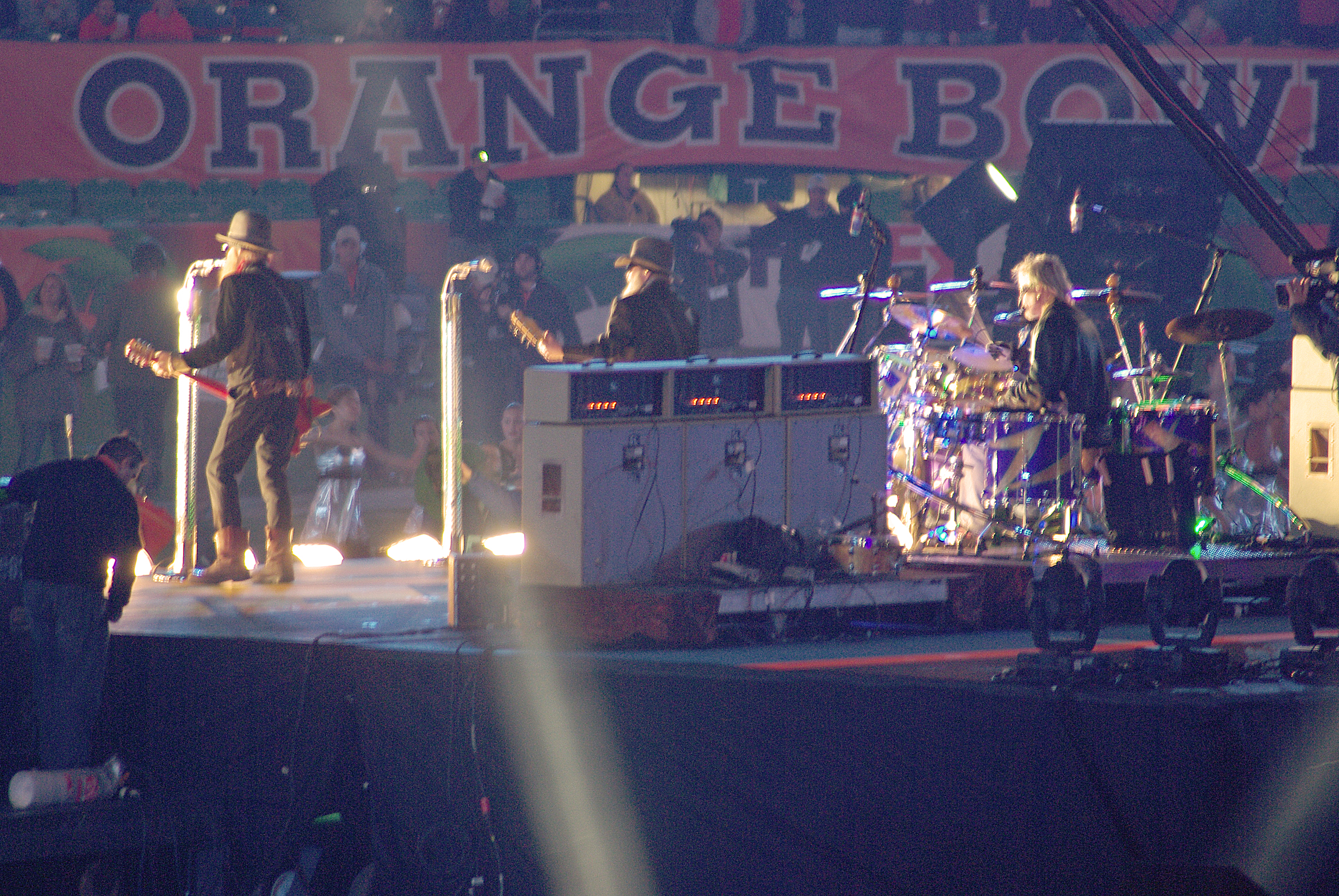 ZZ Top perform at the 2008 Orange Bowl halftime show.